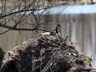 Photo of Canada Goose nesting on beaver lodge in Crawford County, Pennsylvania